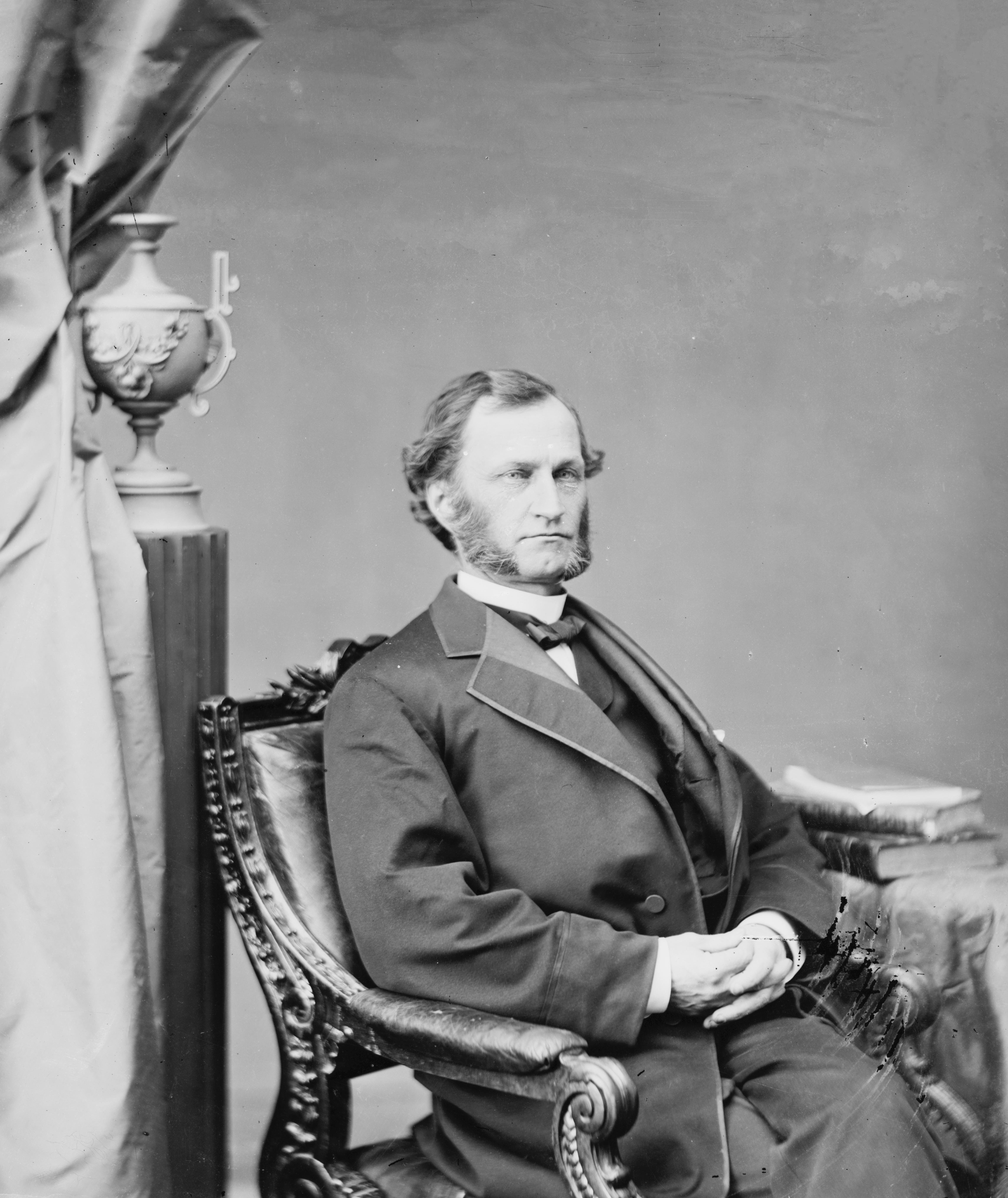 Addison H. Laflin. Library of Congress description: "Hon. Addison Laflin of N.Y."